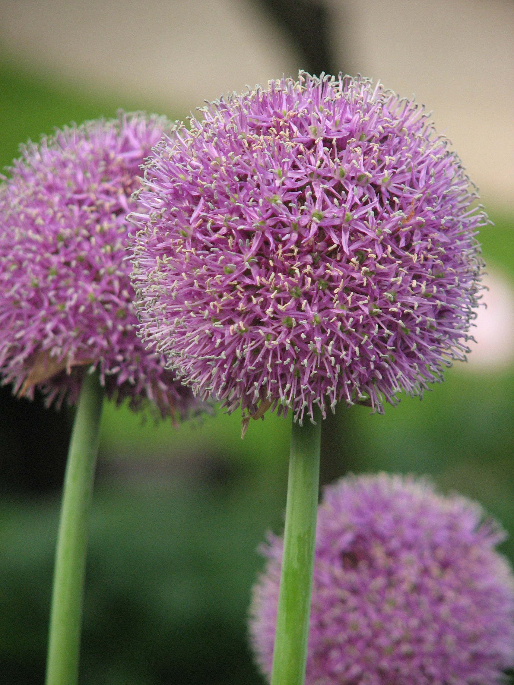 Flowering onion (Allium aflatunense) in flower beds in the Botanical Garden of Moscow State University "Aptekarsky Ogorod".